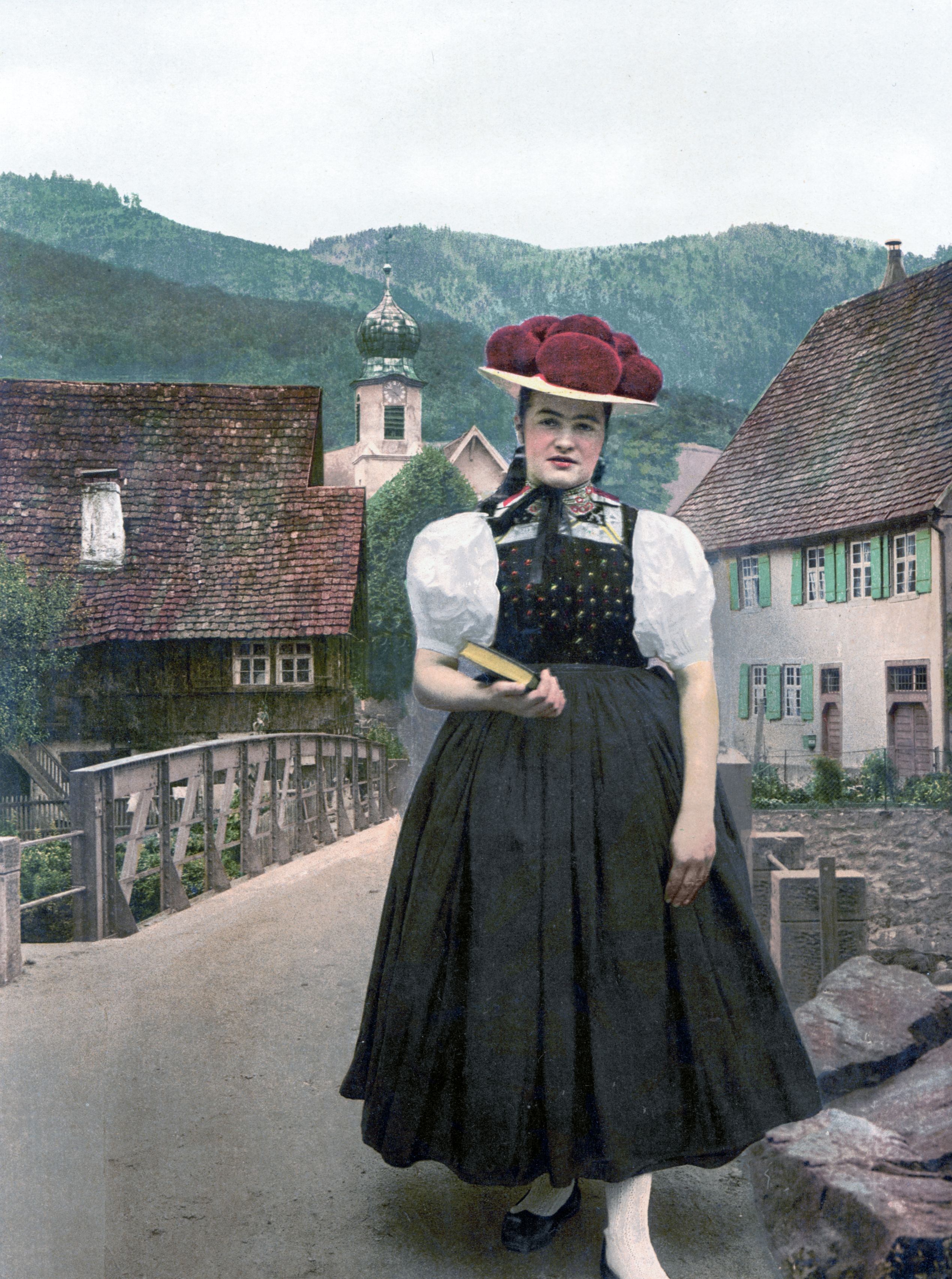 A woman from the Black Forest in traditional costume in Gutach, Germany, 1898 Print no. "9397" = 1898